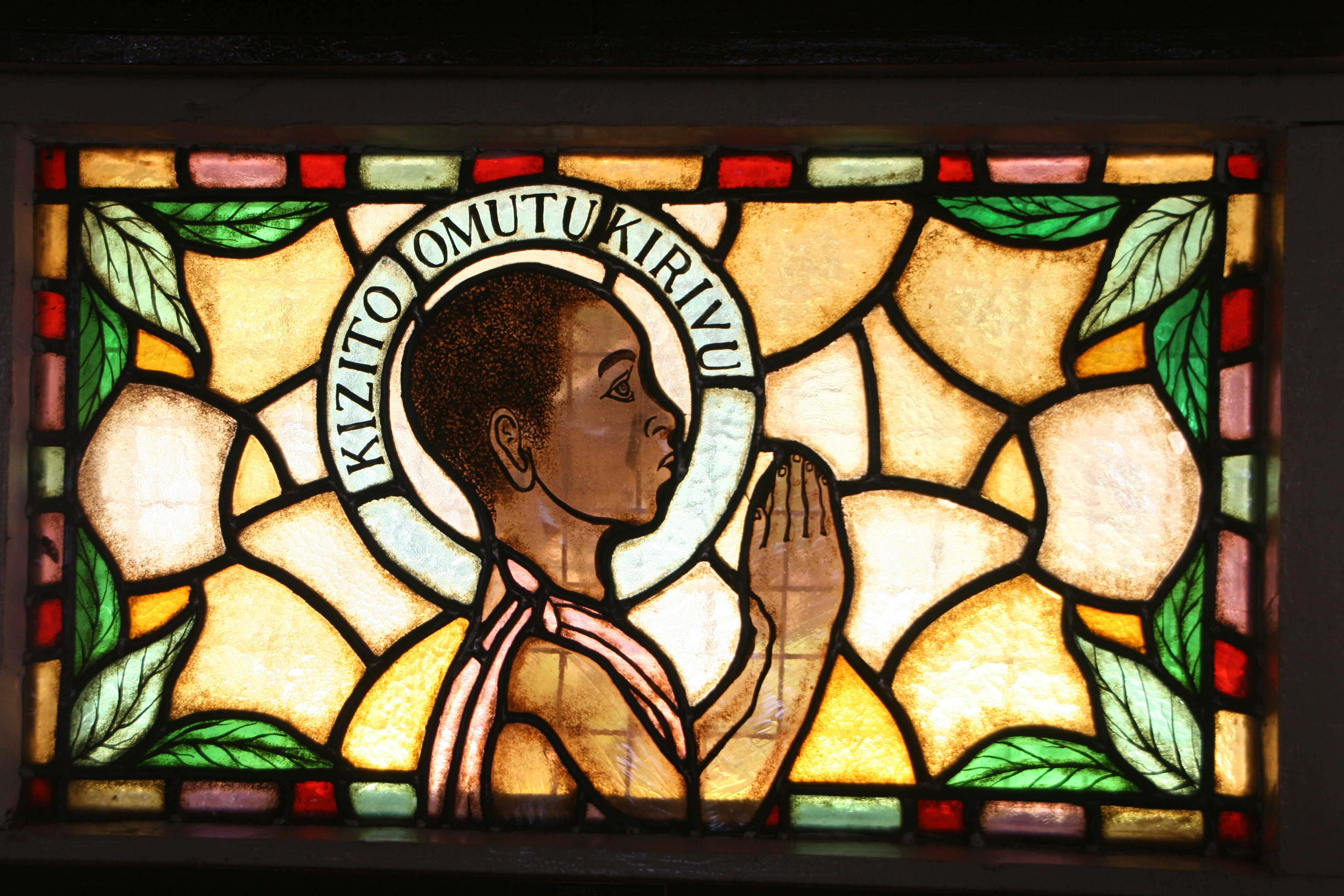 Stained glass window showing St. Kizito, Catholic church of the Uganda Martyrs, Namugongo, Uganda